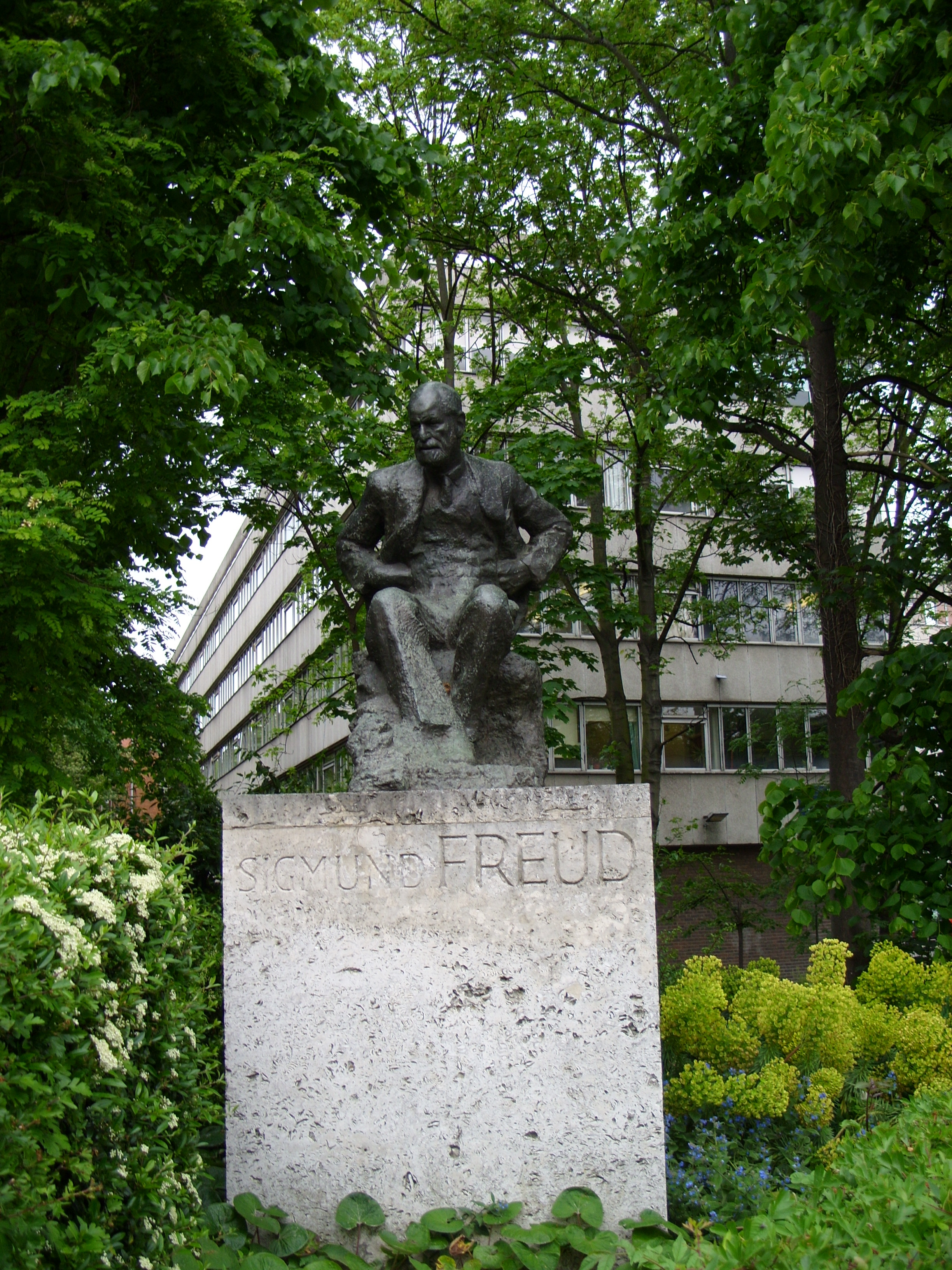 Sigmund Freud statue with Tavistock Clinic behind it